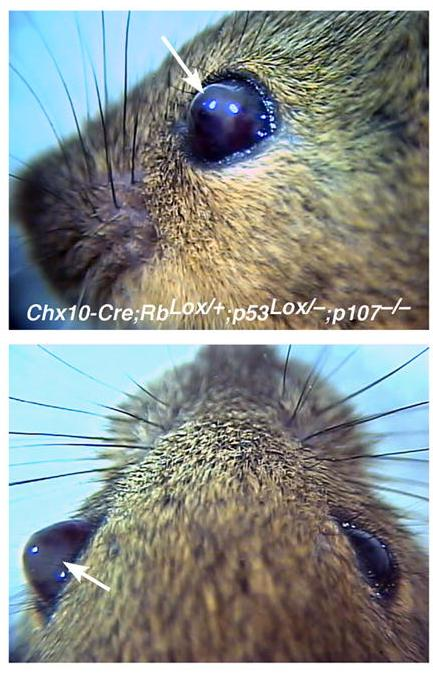 The importance of the p53 pathway in retinoblastoma was shown in mice with retinas lacking Rb, p107, and p53 [1]. These mice developed bilateral retinoblastoma with 100% penetrance and a short latency; thus, they are ideal for testing new chemotherapeutic drugs. Rb was conditionally inactivated in retinal progenitor cells by using the Chx10-Cre transgenic mouse line and the RbLox allele. On a p107-deficient genetic background, these mice develop retinoblastoma with a penetrance of approximately 60%. However, the disease rarely progresses to invasive retinoblastoma with ocular hypertrophy, and the mice rarely become moribund. In contrast, mice lacking both copies of p53, Rb, and p107 (Chx10-Cre;RbLox/−;p53Lox/−;p107−/−) in their retinal progenitor cells develop aggressive, invasive retinoblastoma. More importantly, penetrance is 100% as bilateral retinoblastoma with a short latency (100.3 ± 42.3 days), which is ideal for testing new chemotherapeutic drugs. Interestingly, mice with one copy of wild-type Rb also develop invasive, aggressive retinoblastoma, but with a longer latency than do Chx10-Cre;RbLox/−;p53Lox/−;p107−/− mice. Preliminary studies indicated that these tumors have lost heterozygosity at the Rb locus; thus, Chx10-Cre;RbLox/−;p53Lox/−;p107−/− mice are the only mouse model of retinoblastoma that recapitulates this feature of human retinoblastoma.